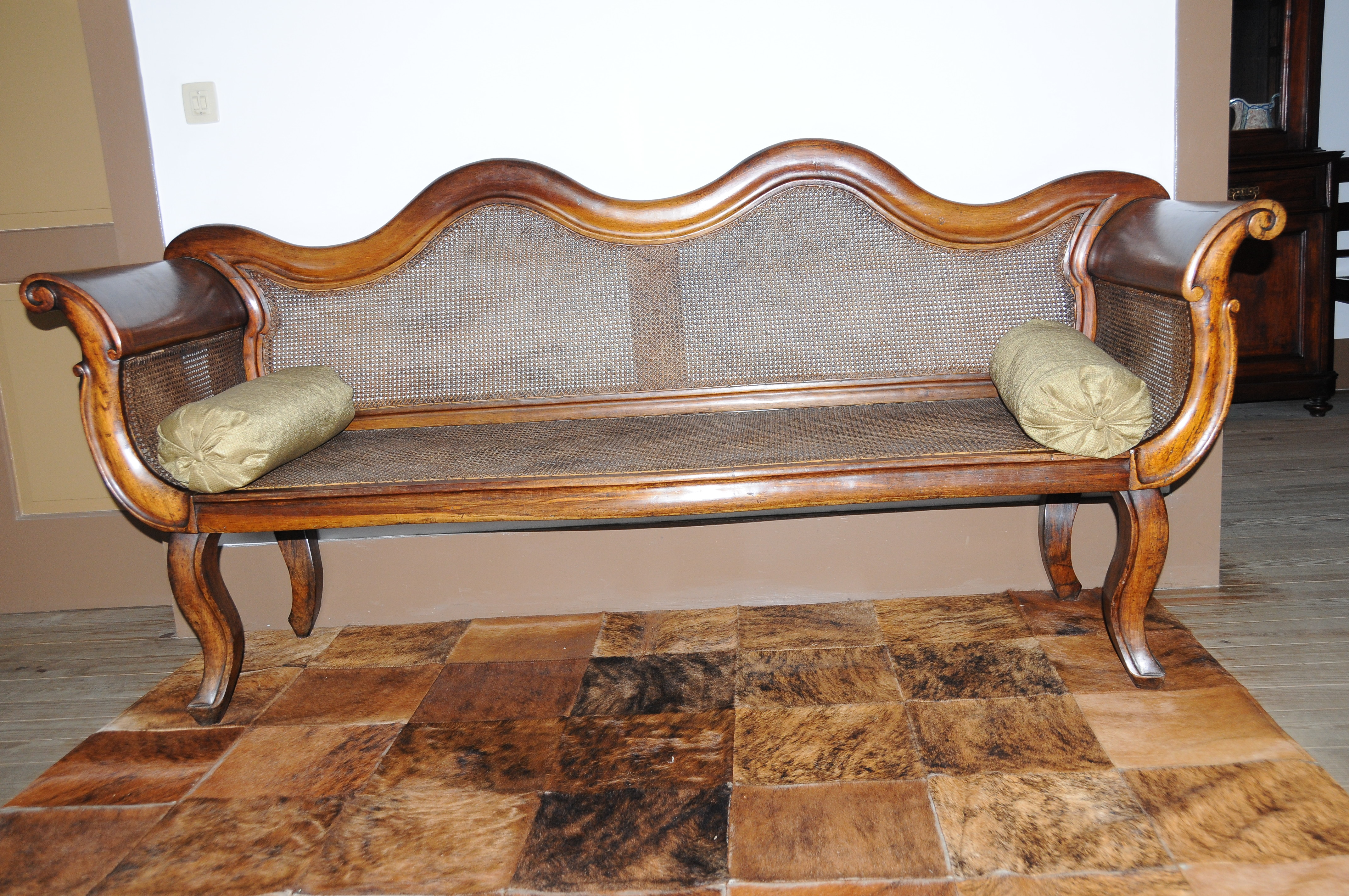 Cane-bottomed settee in Camilo Castelo Branco House, Famalicão, Portugal.